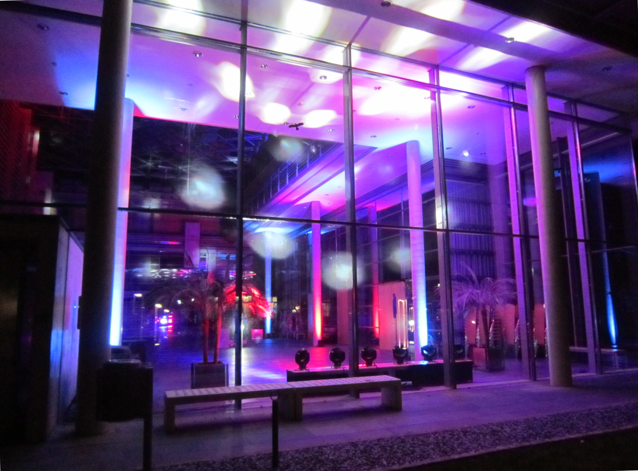 Vechta Town hall